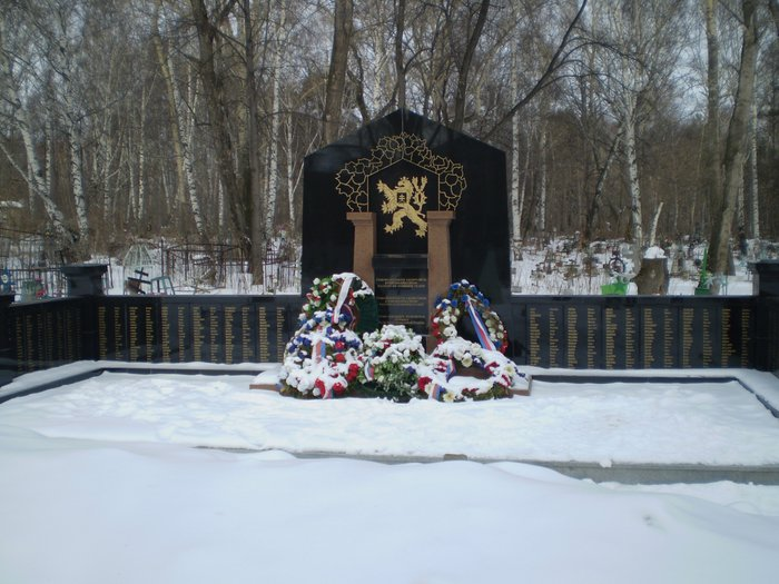 Monument to Czechoslovak Legion in Yeakaterinburg.